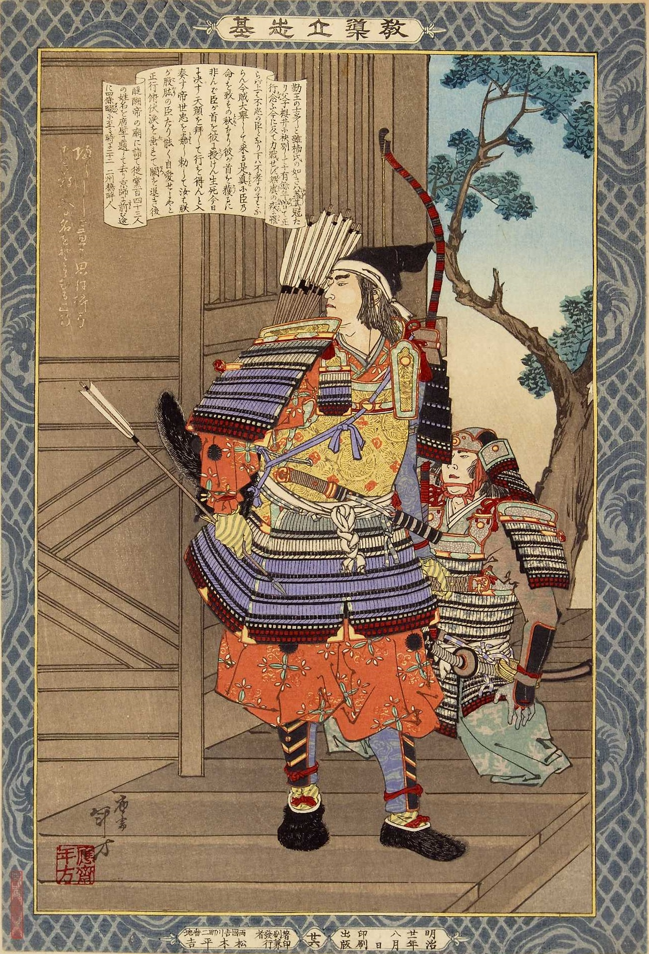 Kusunoki Masatsura, from the series Instruction in the Fundamentals of Success, Woodblock print